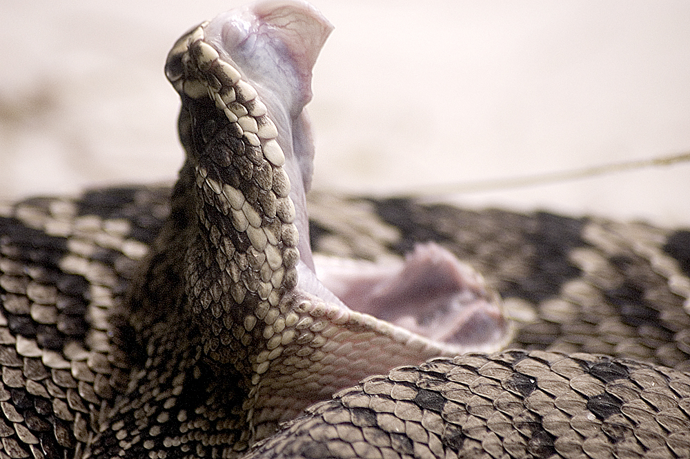 Close-up of a Crotalus Adamanteus at Louisville Zoo, 2009